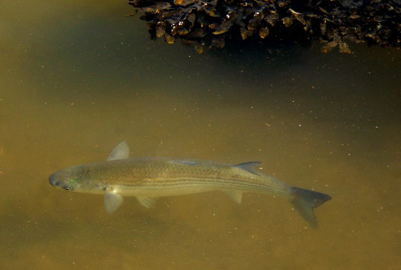 In a creek near Kingsbridge, Devon, UK.